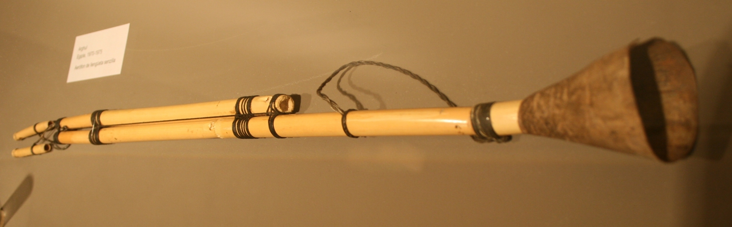 Arghul from Egypt, ca. 1970-1975